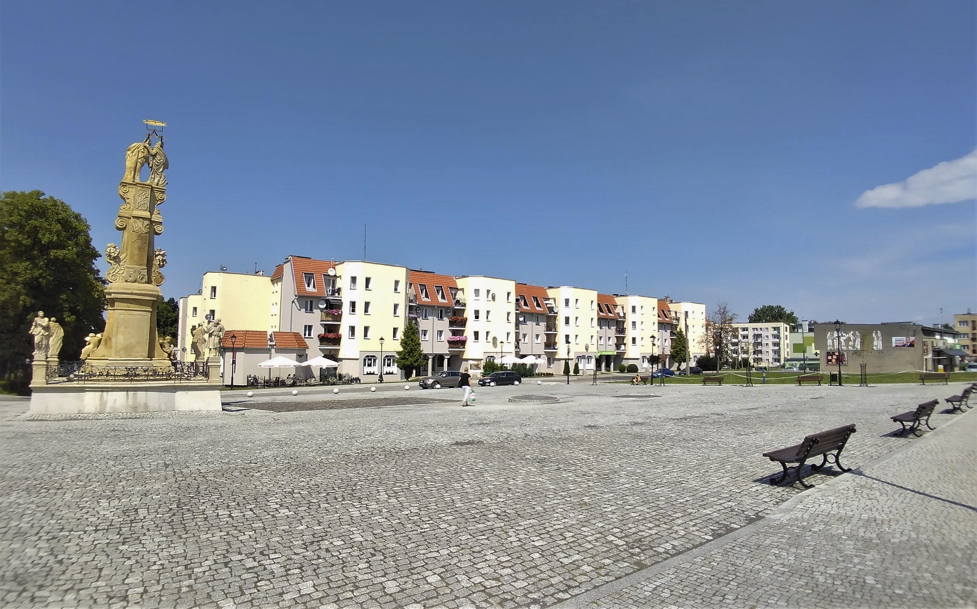 The Plague Column (1730) and the Central Square in Kietrz/Katscher, Upper Silesia, Poland